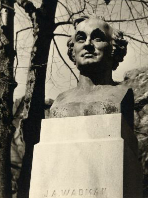 Bust of Johan Anders Wadman (1777-1837) by Johan Peter Molin located in Kronhusparken, Göteborg, 1951